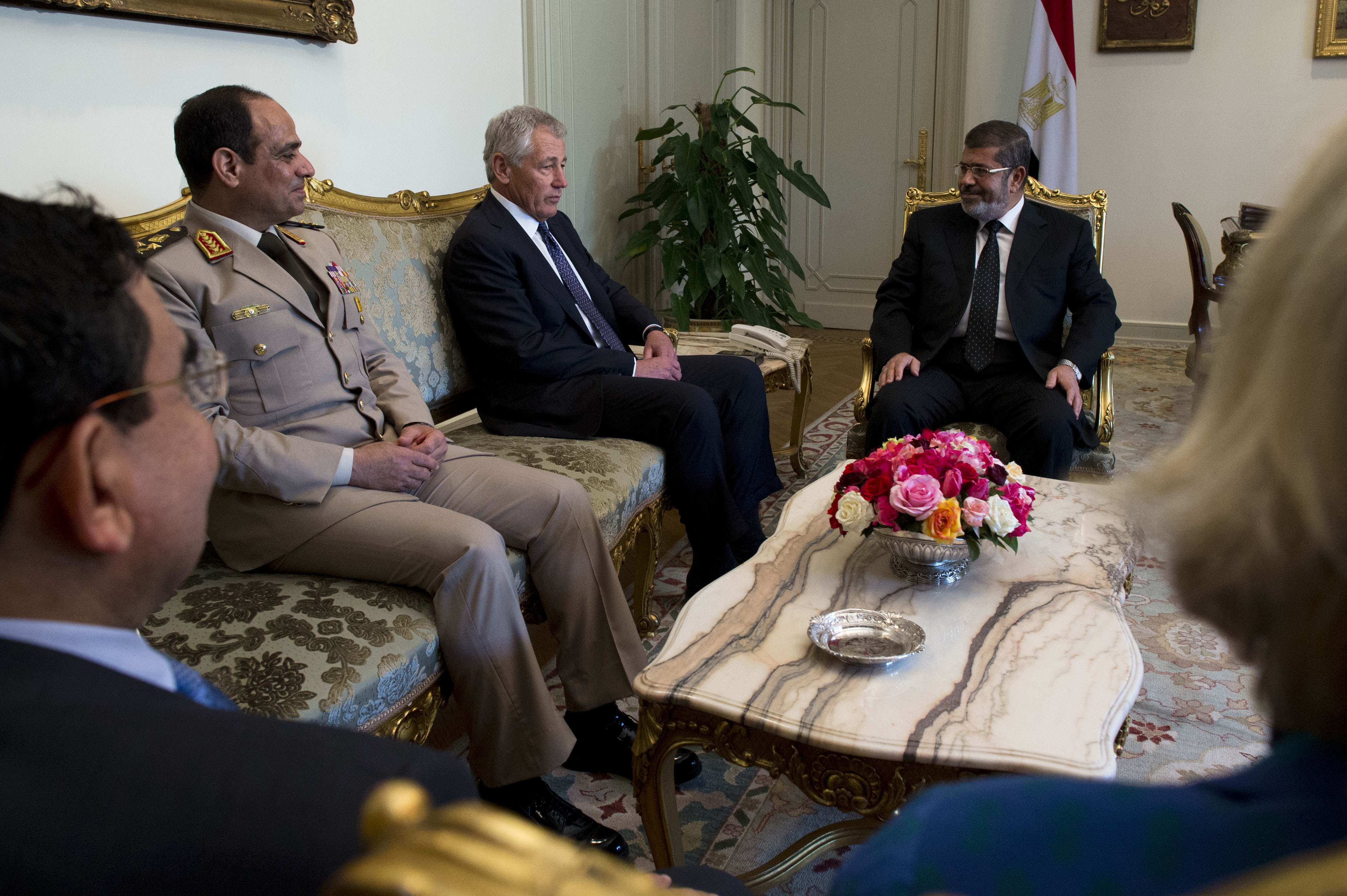 Secretary of Defense Chuck Hagel meets with Egyptian President Mohamed Morsi in Cairo, Egypt, April 24, 2013. Egypt is Hagel's fourth stop on a six day trip to the Middle East to meet with defense counterparts. Also with General Sisi (Photo by Erin A. Kirk-Cuomo) (Released)